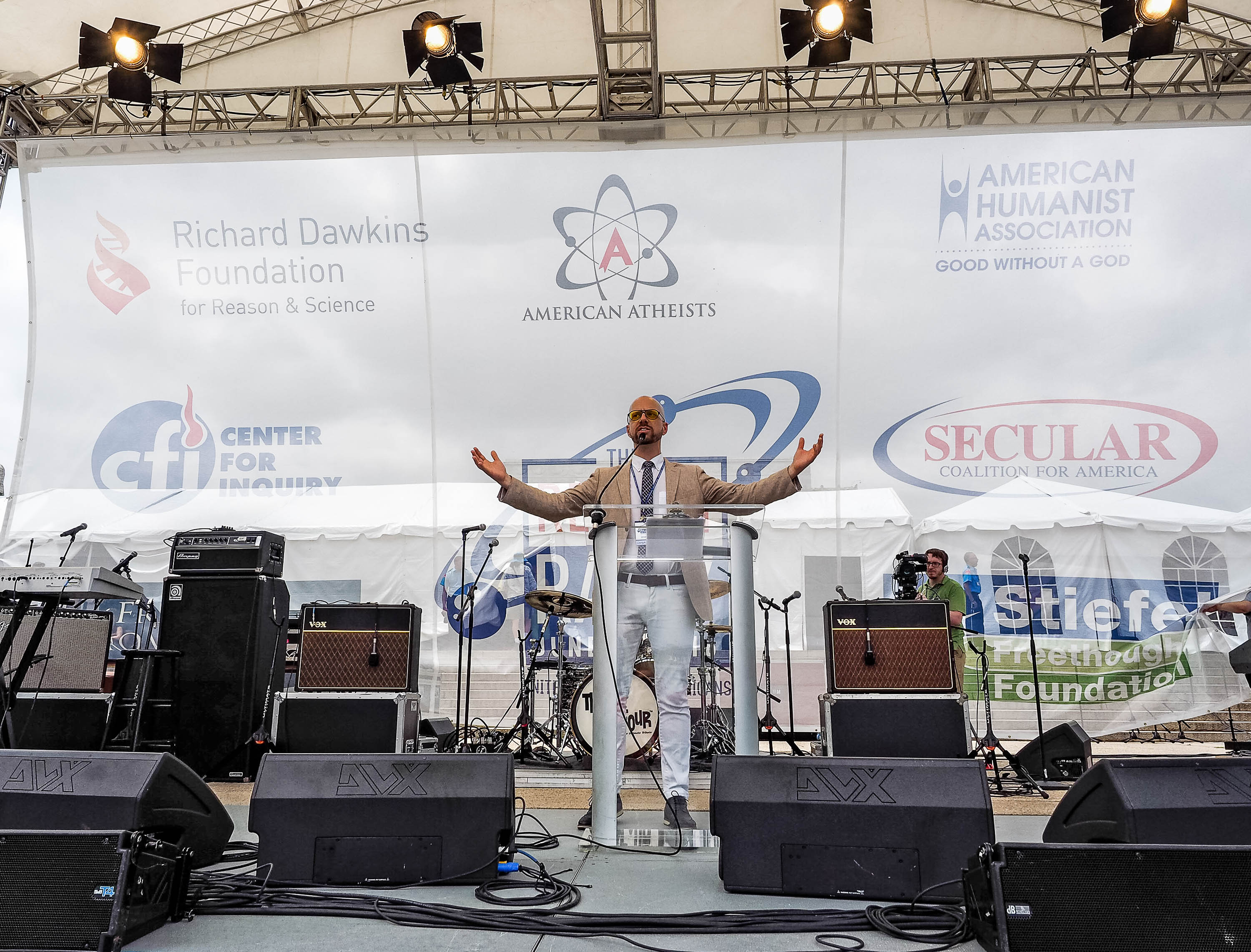 George Hrab on stage the 2016 Reason Rally stage in front of the Lincoln Memorial in Washington DC.